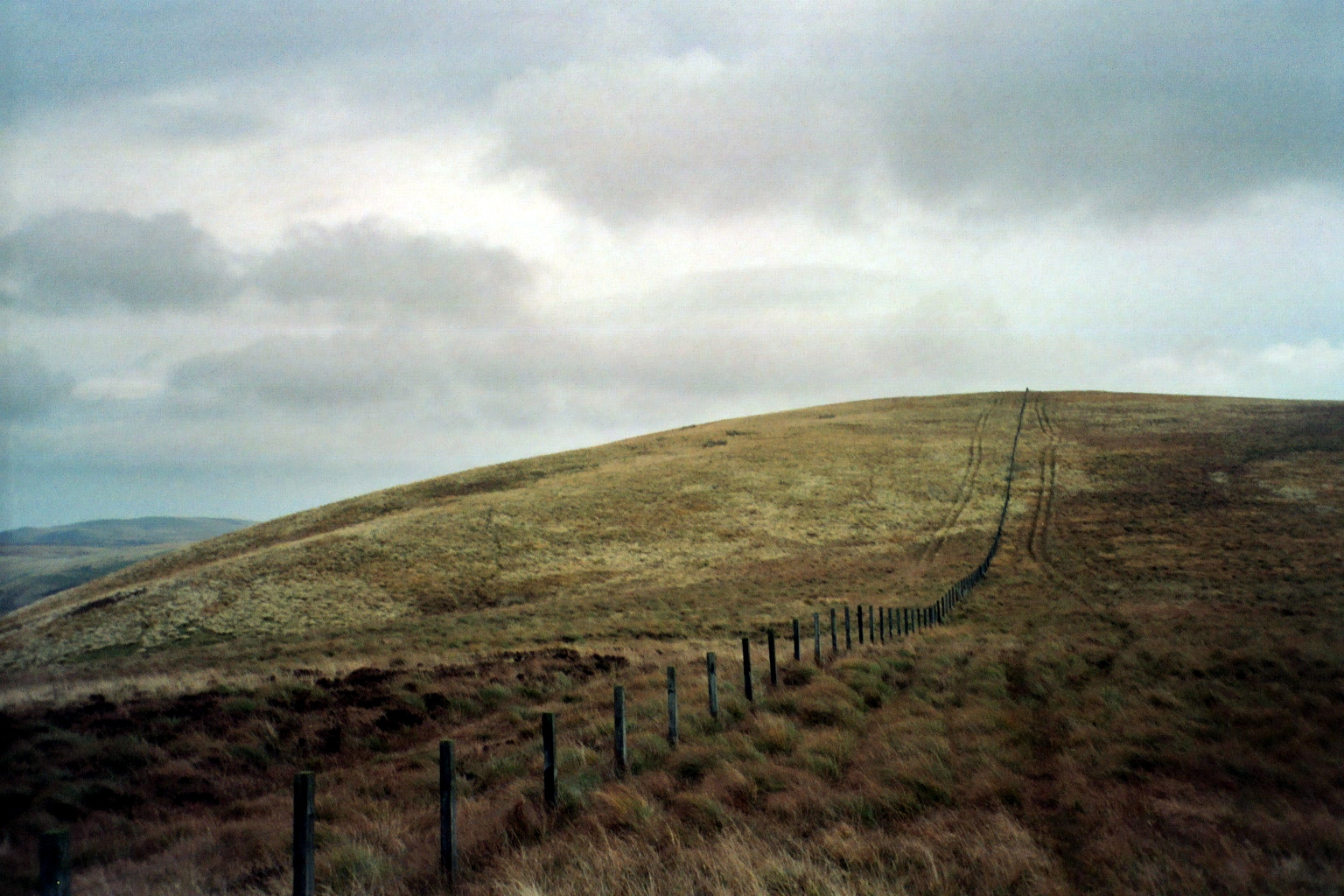 This fence is the Scotland England border - taken Fall 2003.